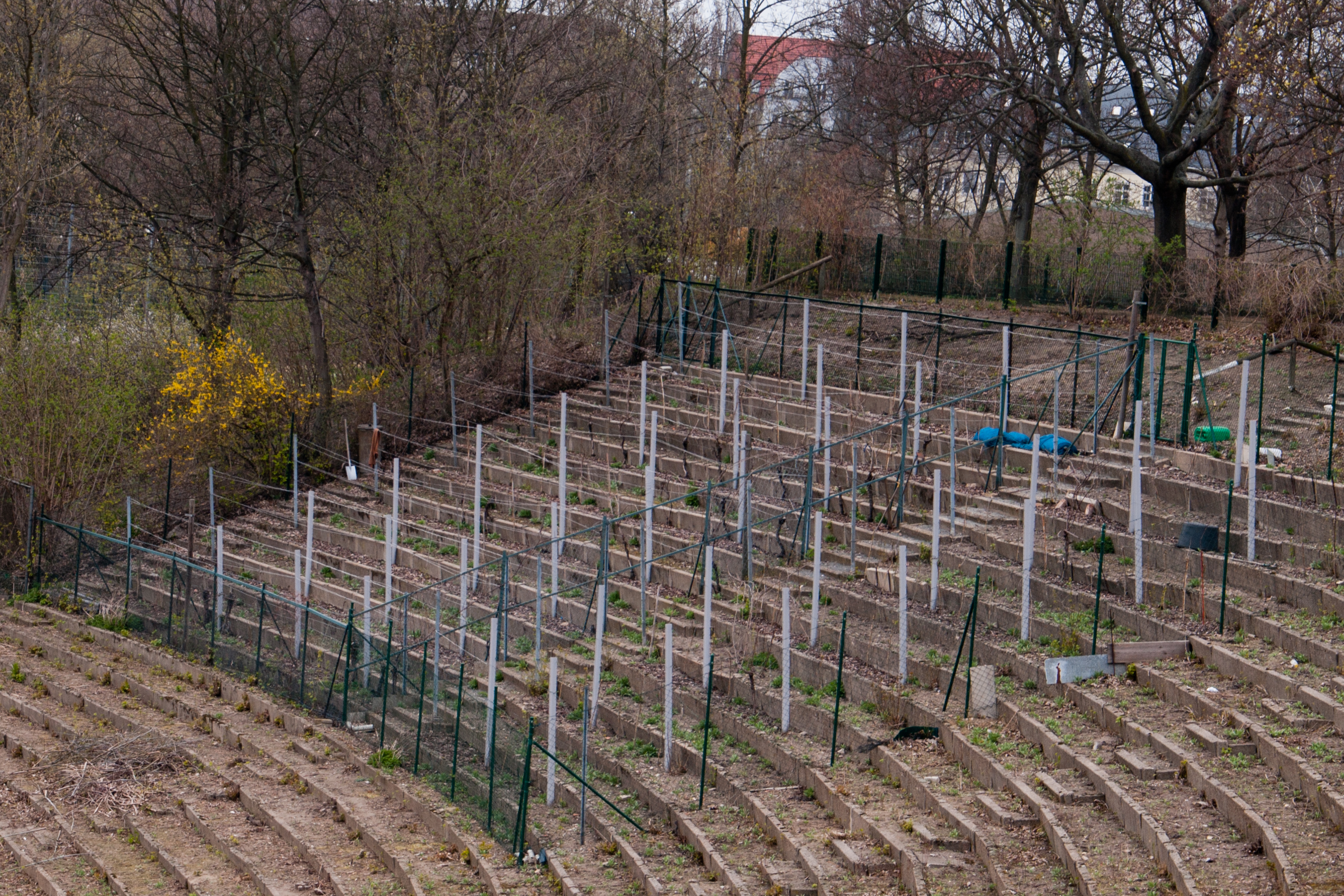 Wilmersdorf Stadium, Berlin, growing wine on the former northern stands.